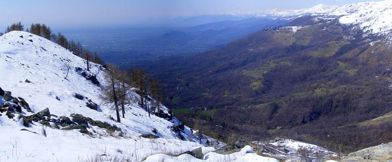 Val Sacra (TO, Italy, Graian Alps) from Monte Calvo